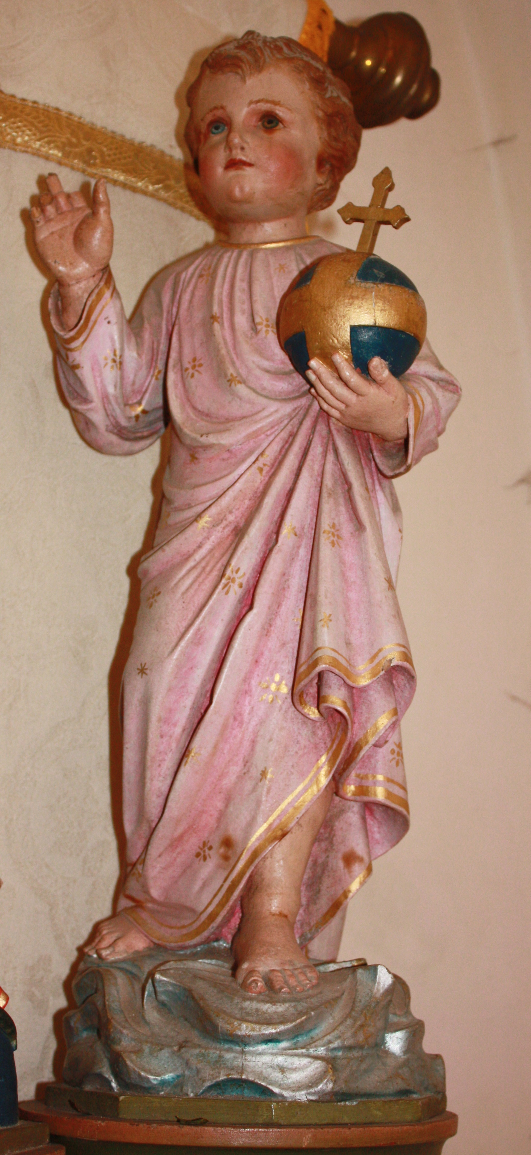 Parish church "Saint Martin" in Diex in the community of Diex - procession-sculpture - Jesus-child